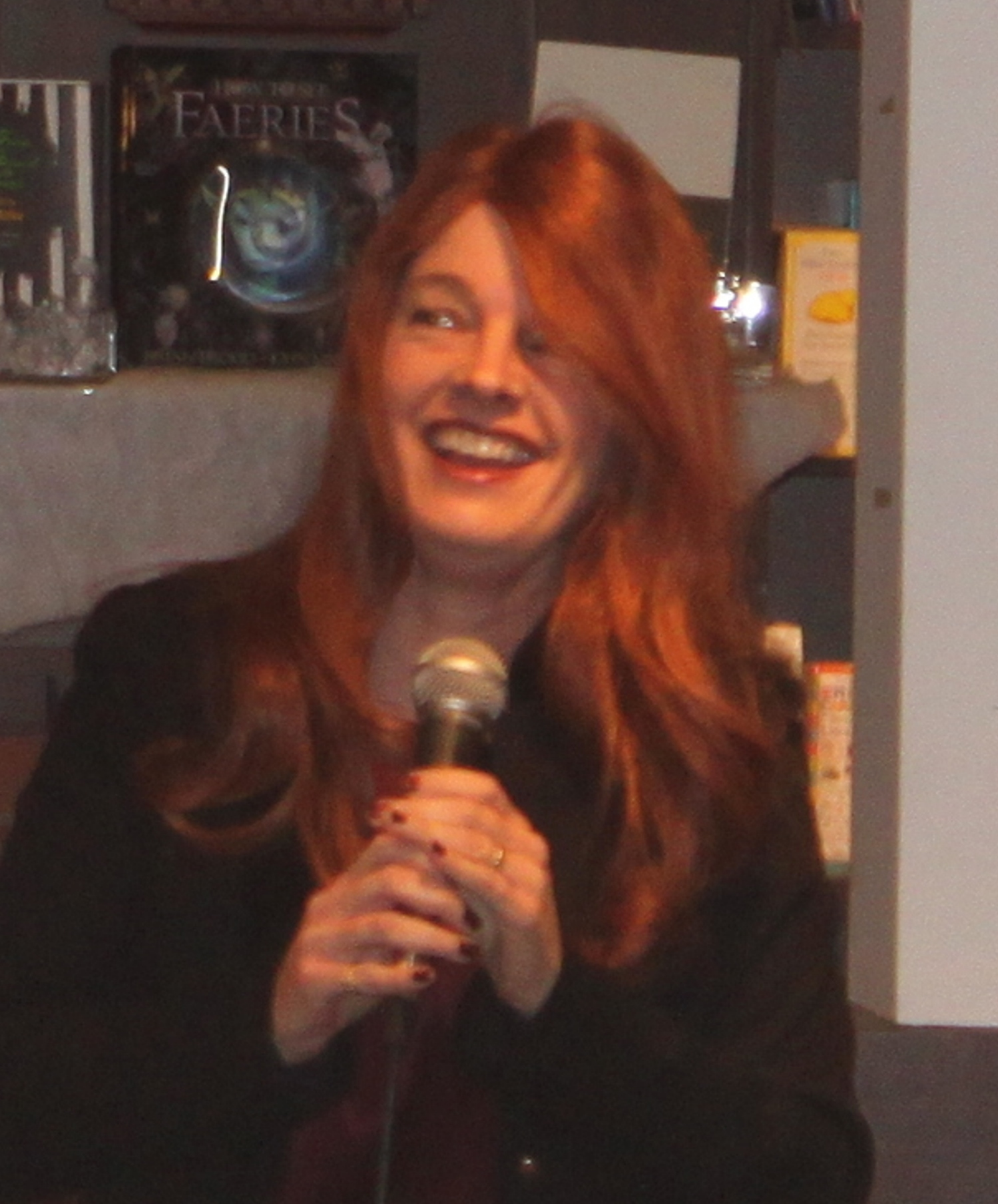 Author Kim Harrison (pen name for Dawn Cook) answering a question during the question and answer period at a book signing event for her novel A Perfect Blood.